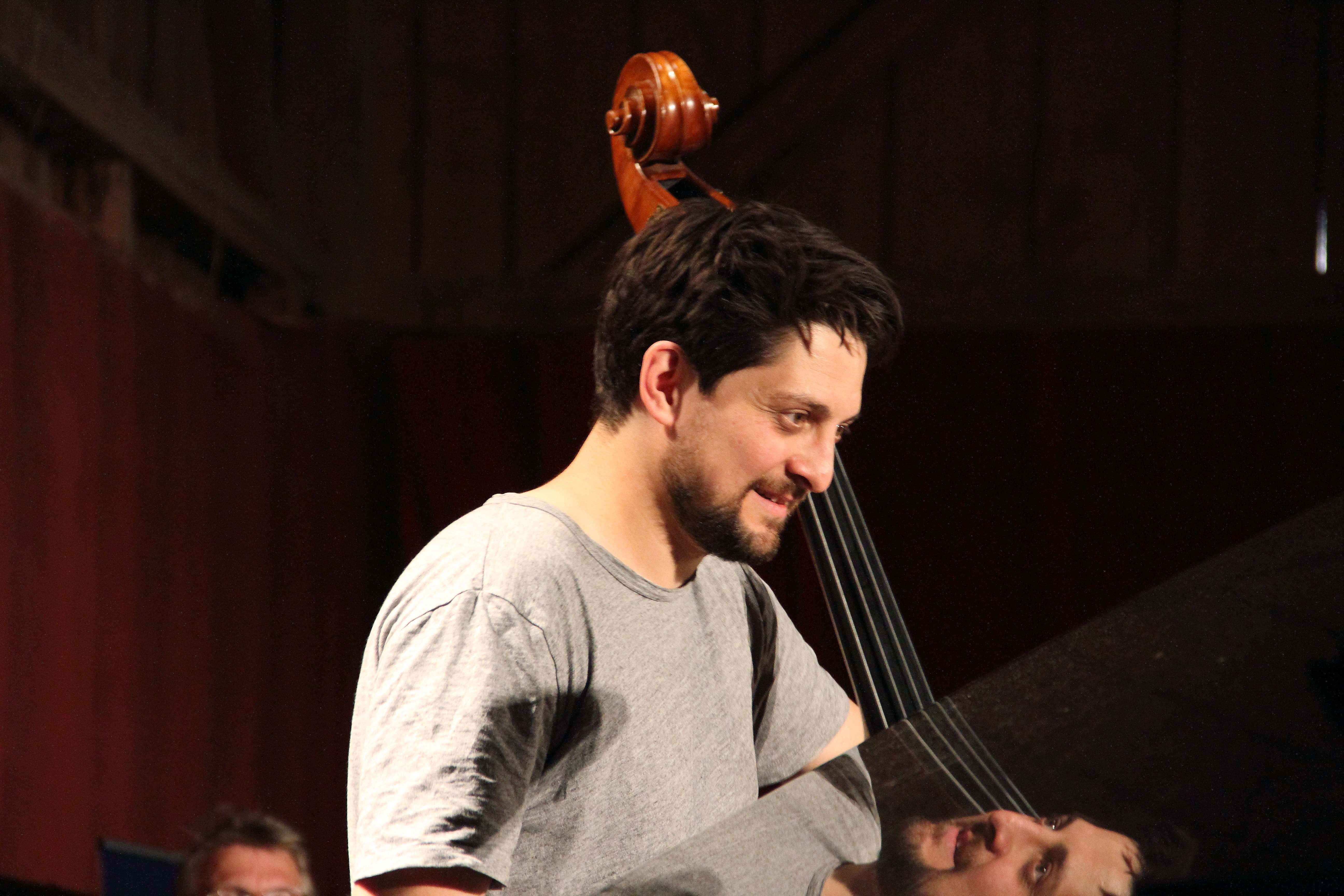 The Anna Lena Schnabel Quartet at INNtöne Jazzfestival 2018.